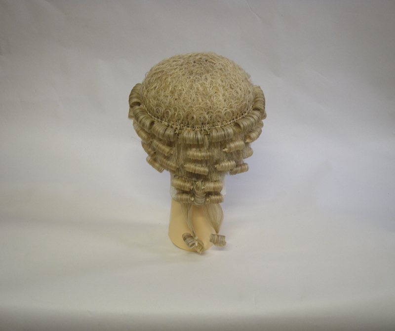 Περούκα νομικού από υπόλευκες τρίχες αλόγου με μπούκλες που δένουν πίσω. Αγγλία 2009.6.902 / Συλλογή Πελοποννησιακού Λαογραφικού Ιδρύματος